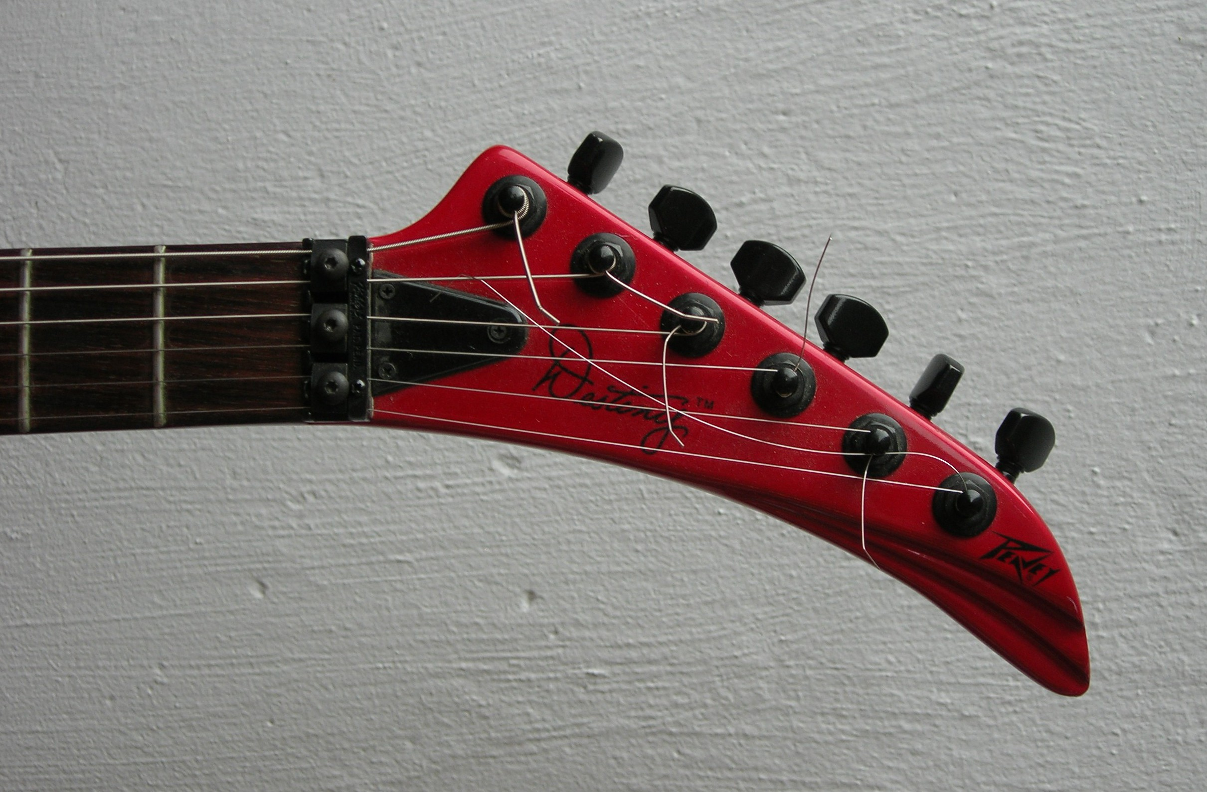 Peavey Destiny, headstock